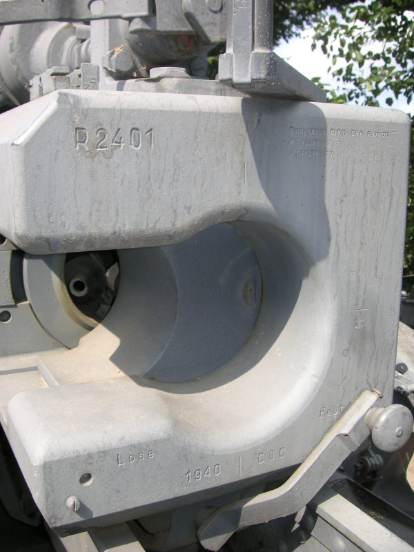 Breech of German WWII 15 cm sFH 18 heavy field howitzer